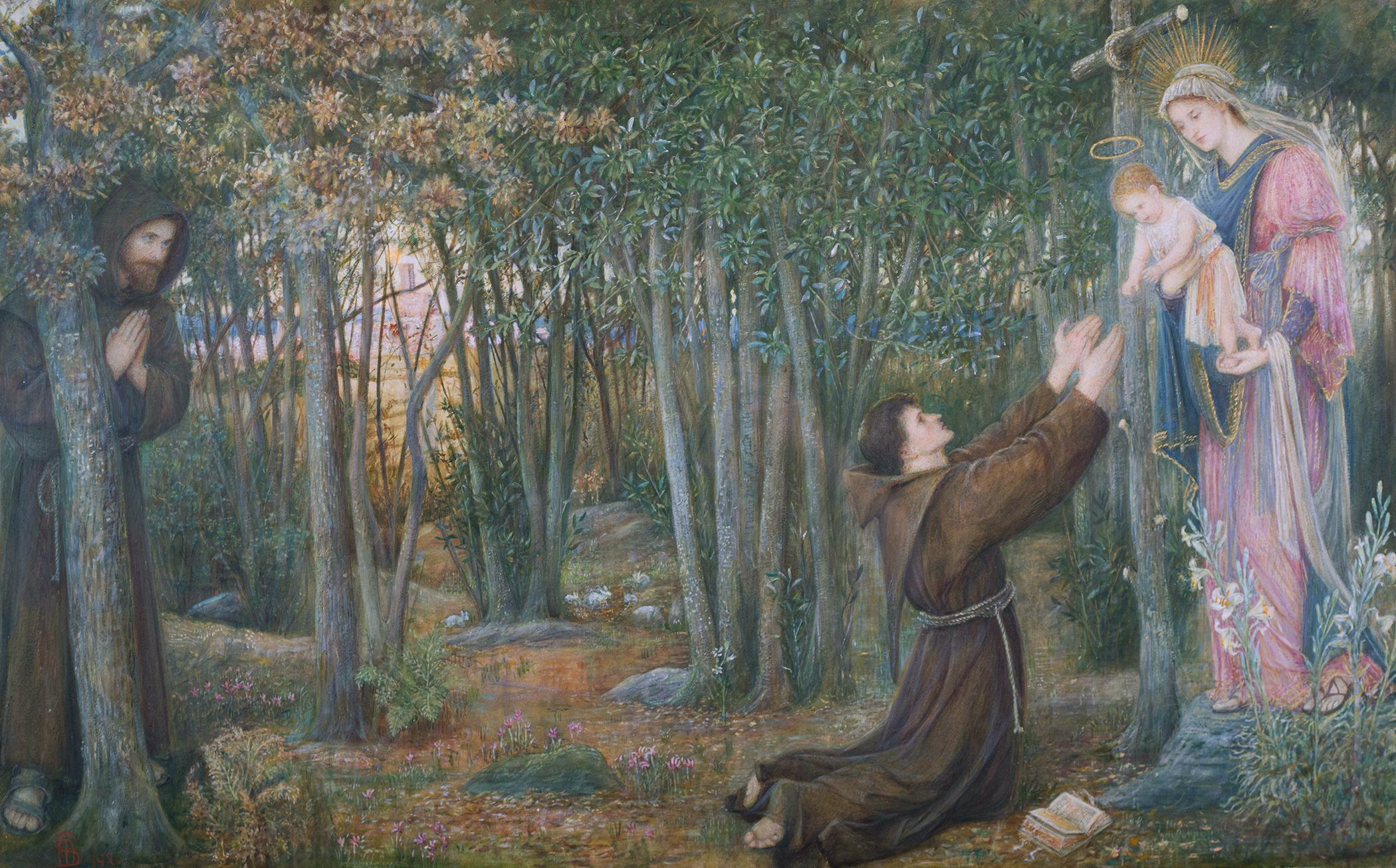 How the Virgin Came to Brother Conrad in Offia and Laid her Son in his Arms watercolour, gouache, and gold paint on paper 49.5 × 80 cm signed b.l.: MS 1892